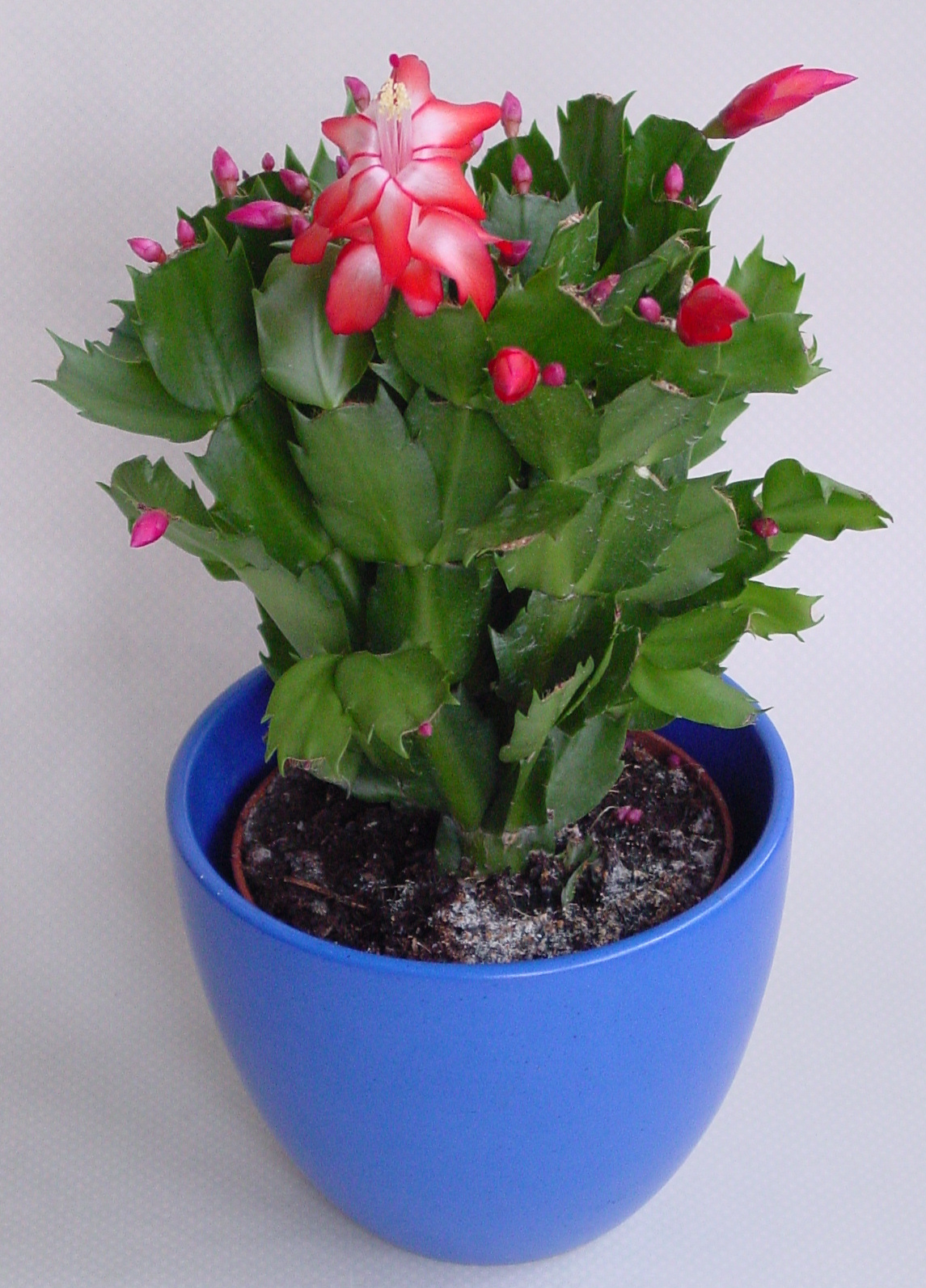 Schlumbergera spec., Christmas cactus